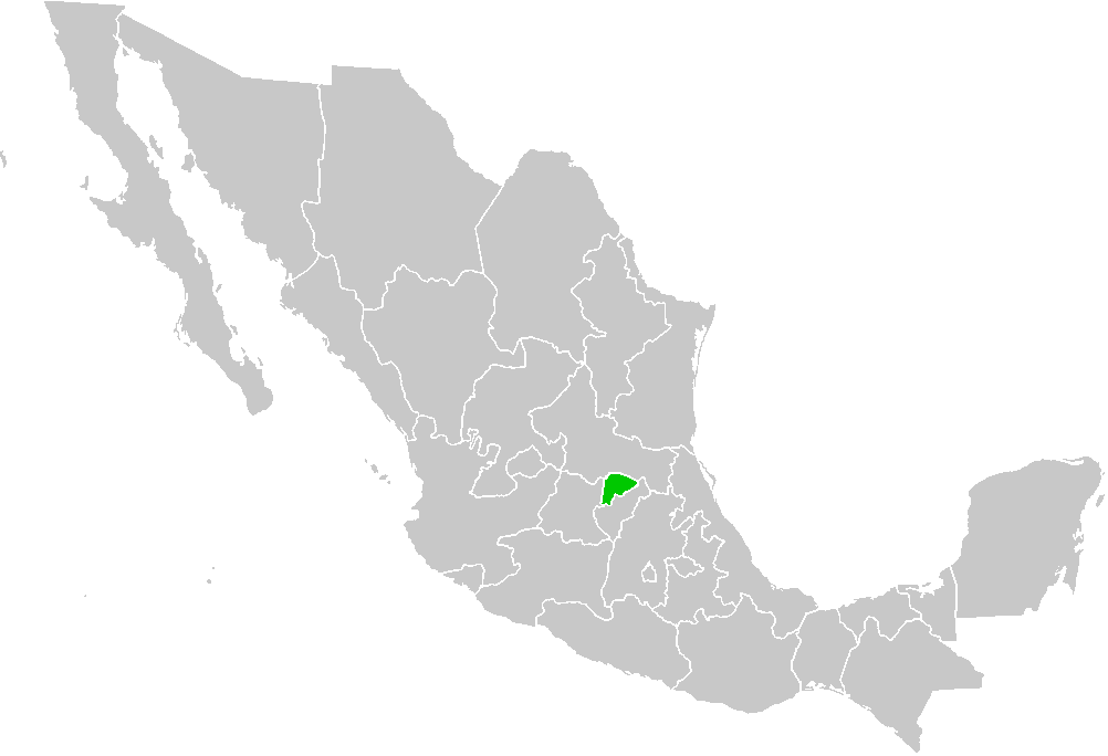 Map of the former Mexican territory of the Sierra Gorda, in present day Querétaro state, central México.